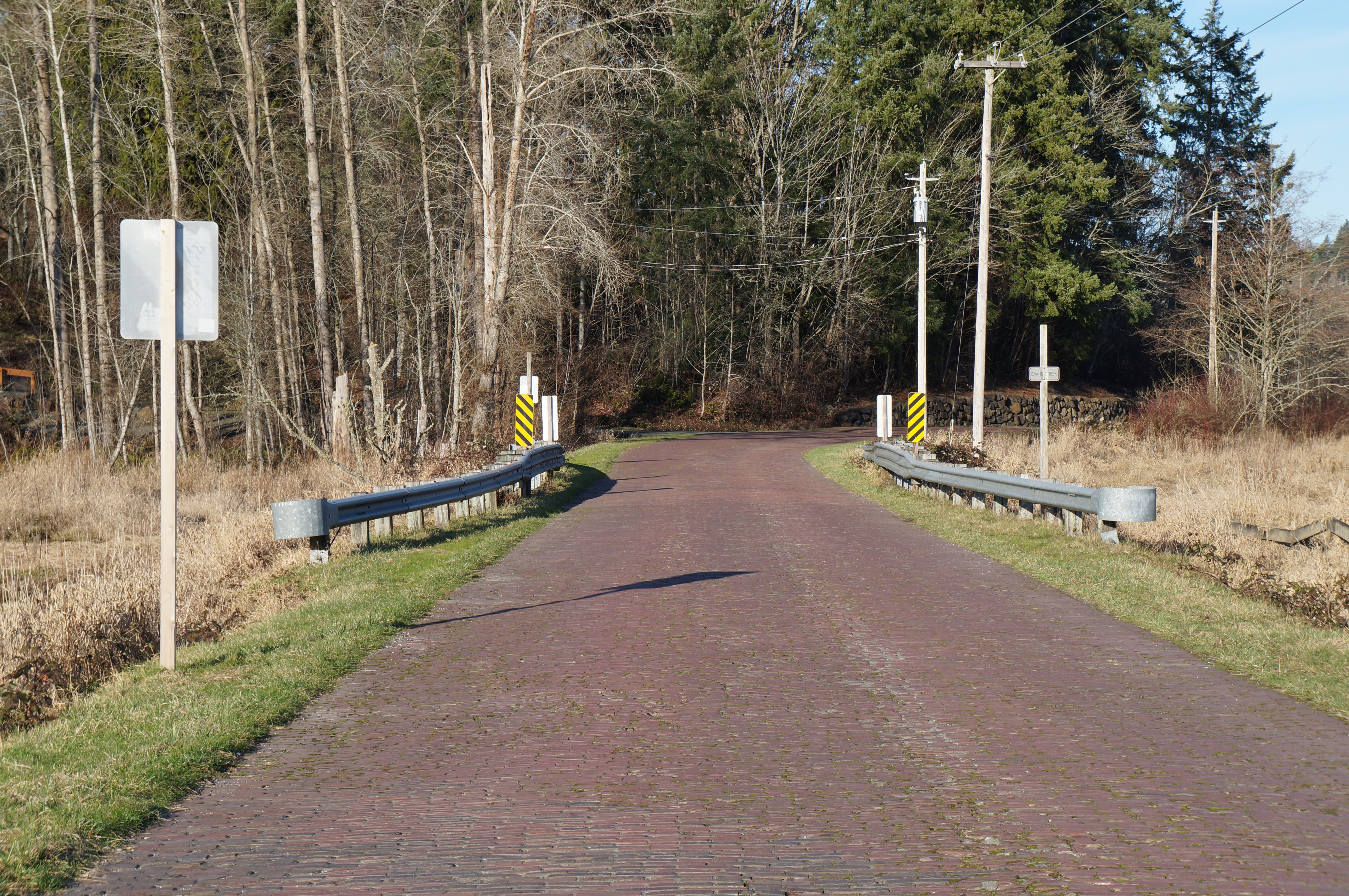 A section of the Red Brick Road in eastern Redmond, Washington, which originally carried the Yellowstone Trail. It was constructed in 1913 and is a designated historic landmark.